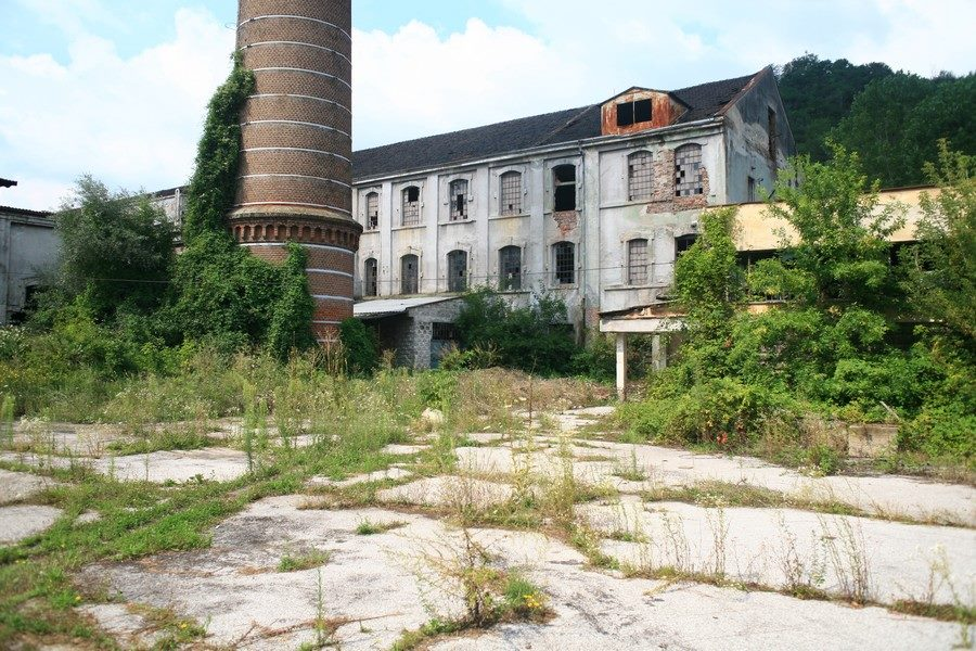 Factory TIG Grdelica Srpski (latinica): Fabrika TIG Grdelica